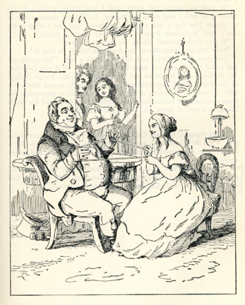 This image is an illustration in Chapter 1 of William Makepeace Thackeray's Vanity Fair from 1848. It was drawn by Thackeray himself and represents Becky Sharp, wearing a "killing expression," flirting with Mr Joseph Sedley.